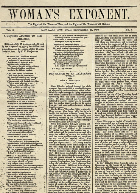 The September 15, 1880 issue of the Woman’s Exponent, a newspaper for Relief Society sisters and women of The Church of Jesus Christ of Latter-day Saints (LDS Church). (Volume 9, Number 8)